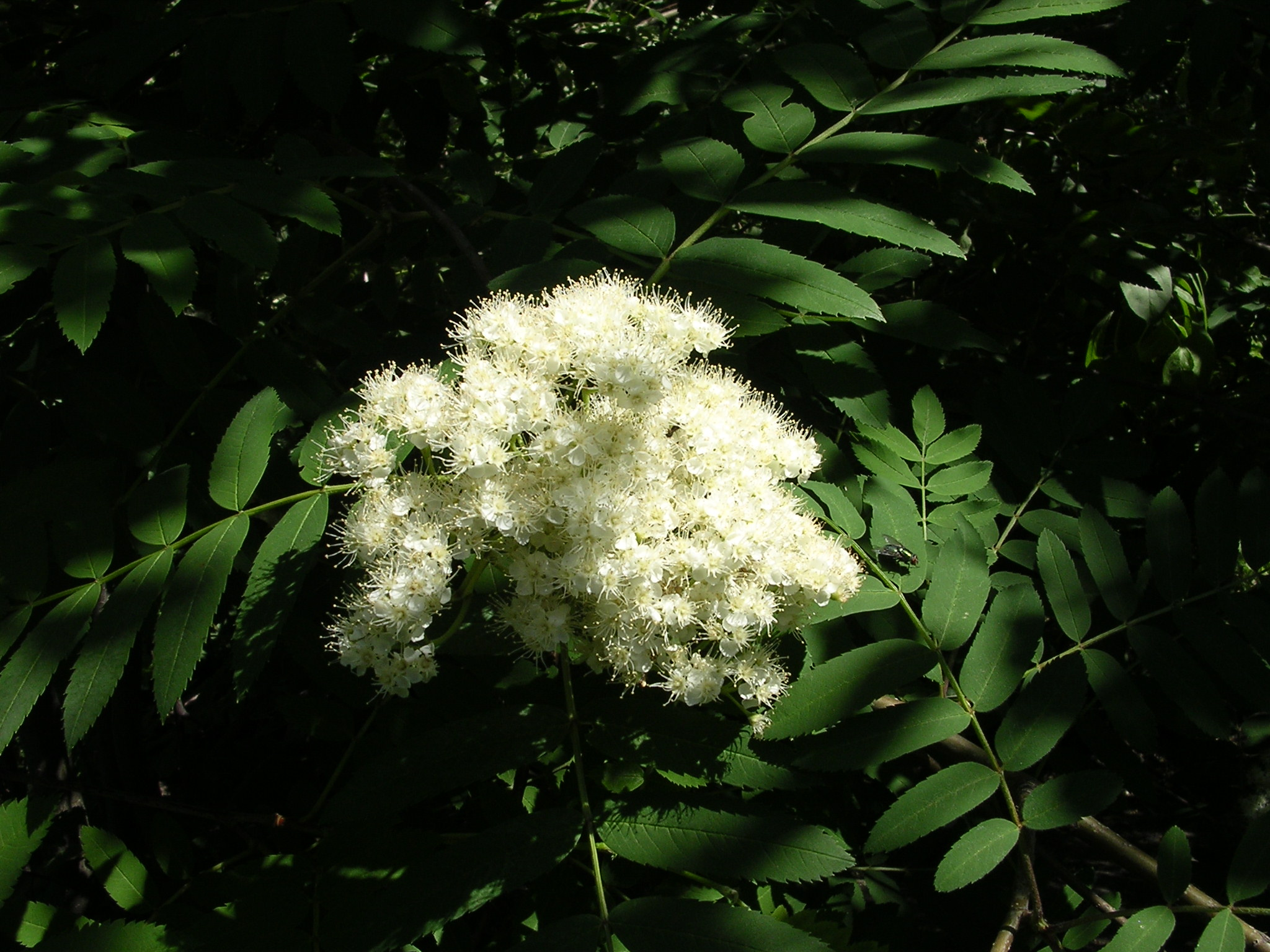 Rowan (Sorbus sp., probably Sorbus aucuparia but not definitely so) flowers